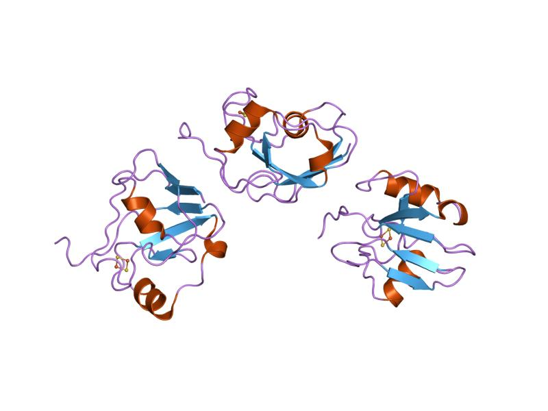 Cartoon representation of the molecular structure of protein registered with 1i7h code.